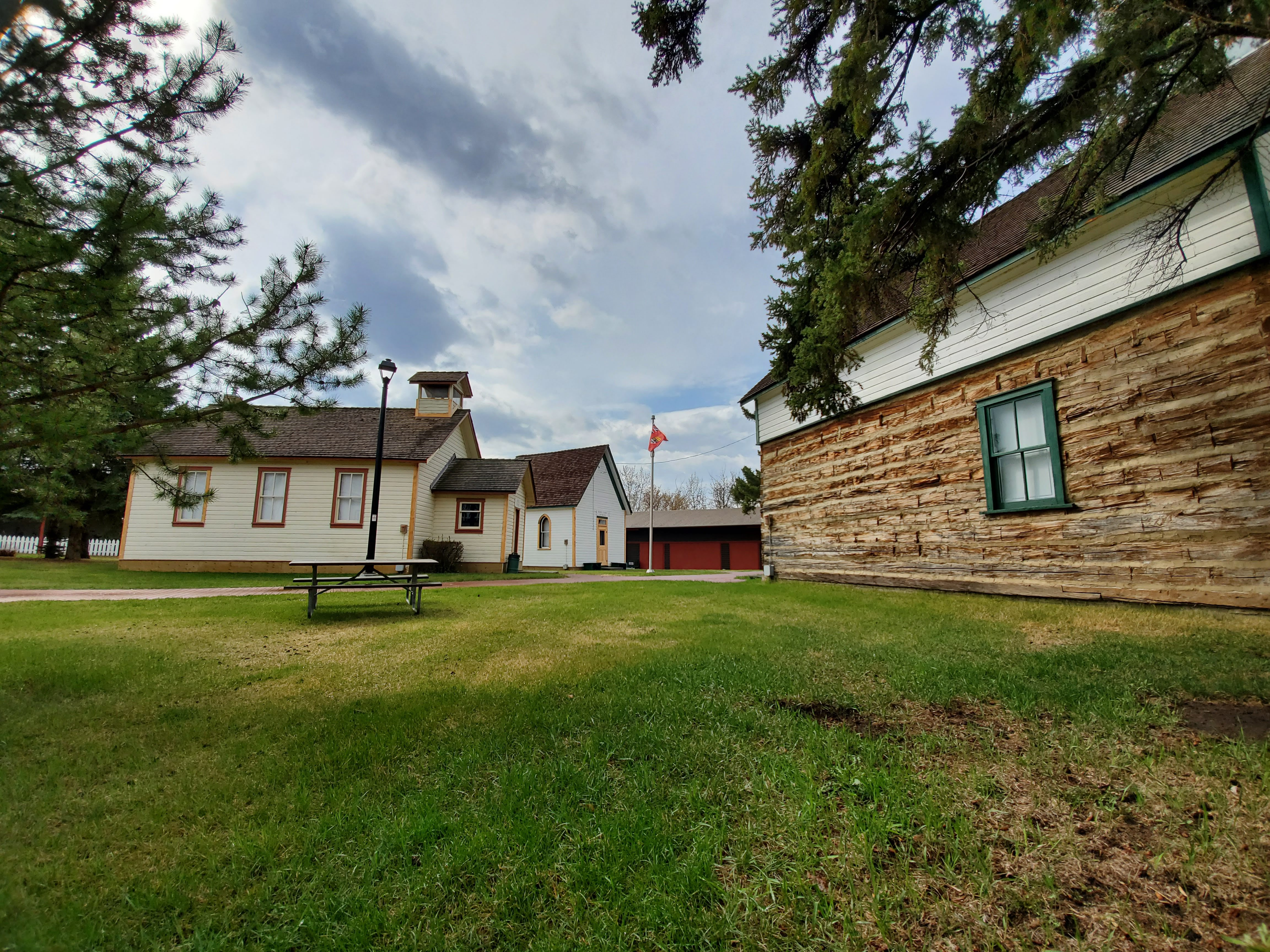 From left to right: the Castle School, the Soda Lake Church, and the Ludwig Kulak homestead